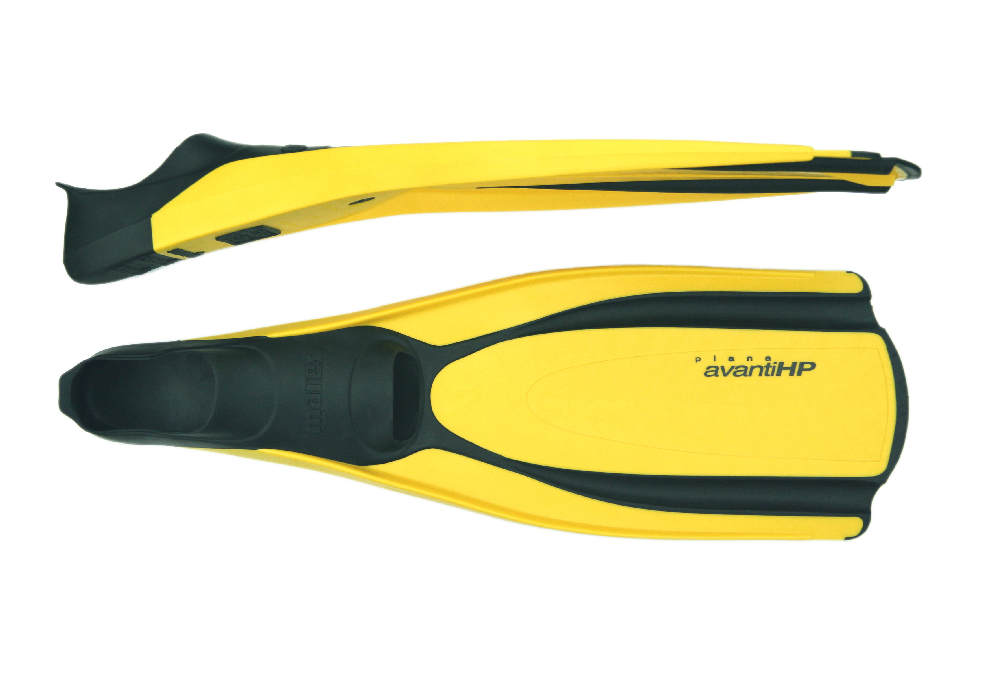 Swim fins (Mares)